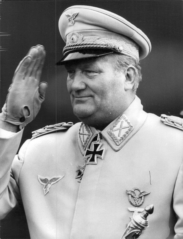 Hein Riess as Hermann Göring in the film "Battle of Britain". The scene was shot in Huelva, Spain using a RENFE train set.